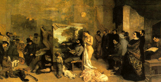 The Painter's Studio: A Real Allegory Summarizing My Seven years of Life as an Artist - Courbet